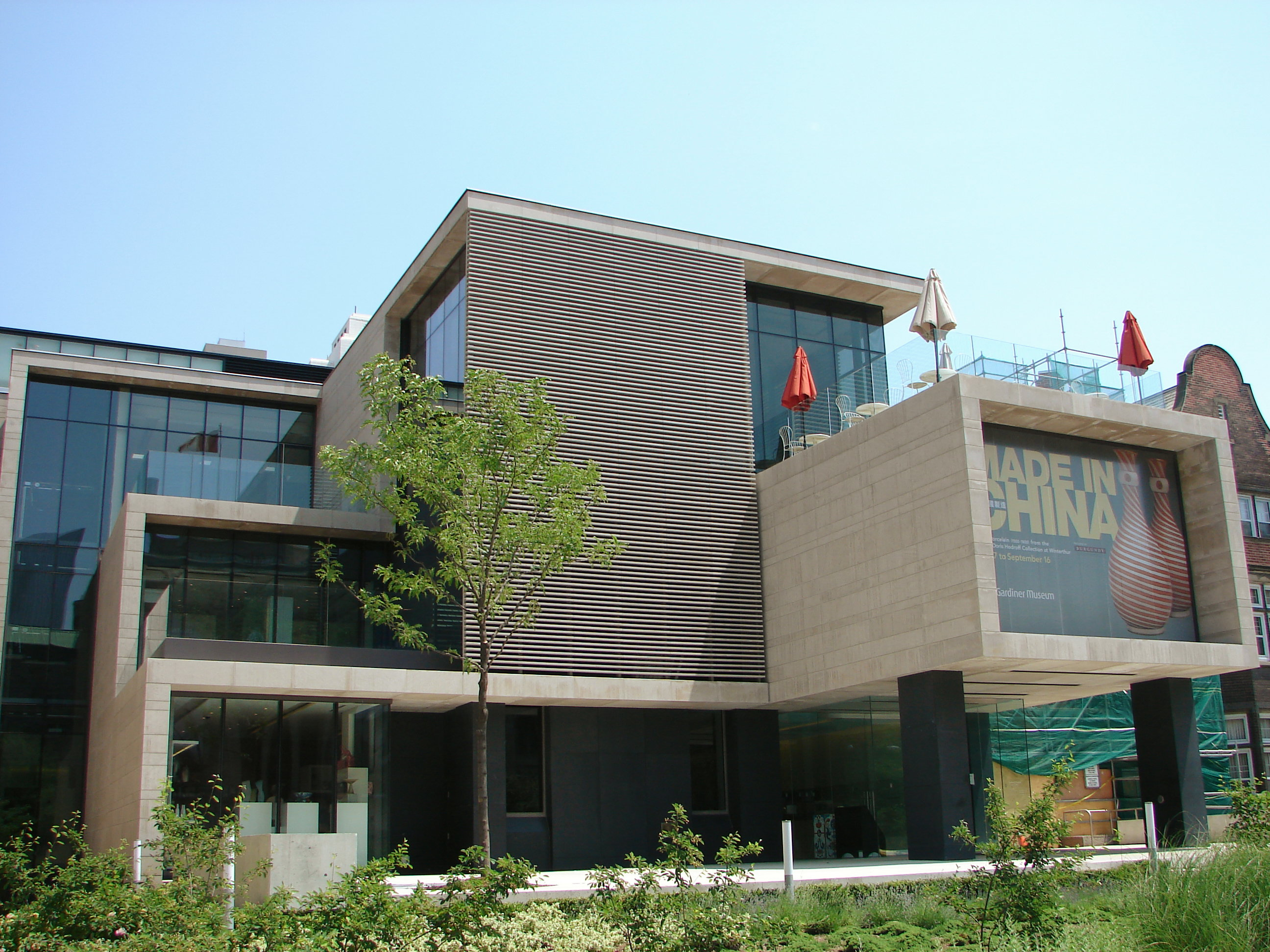 Gardiner Museum in Toronto, designed 1984 by Keith Wagland, extension and redesign by KPMB (2006)